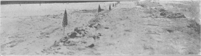 Flags used for line markers in 1908 Football Game with Carlisle